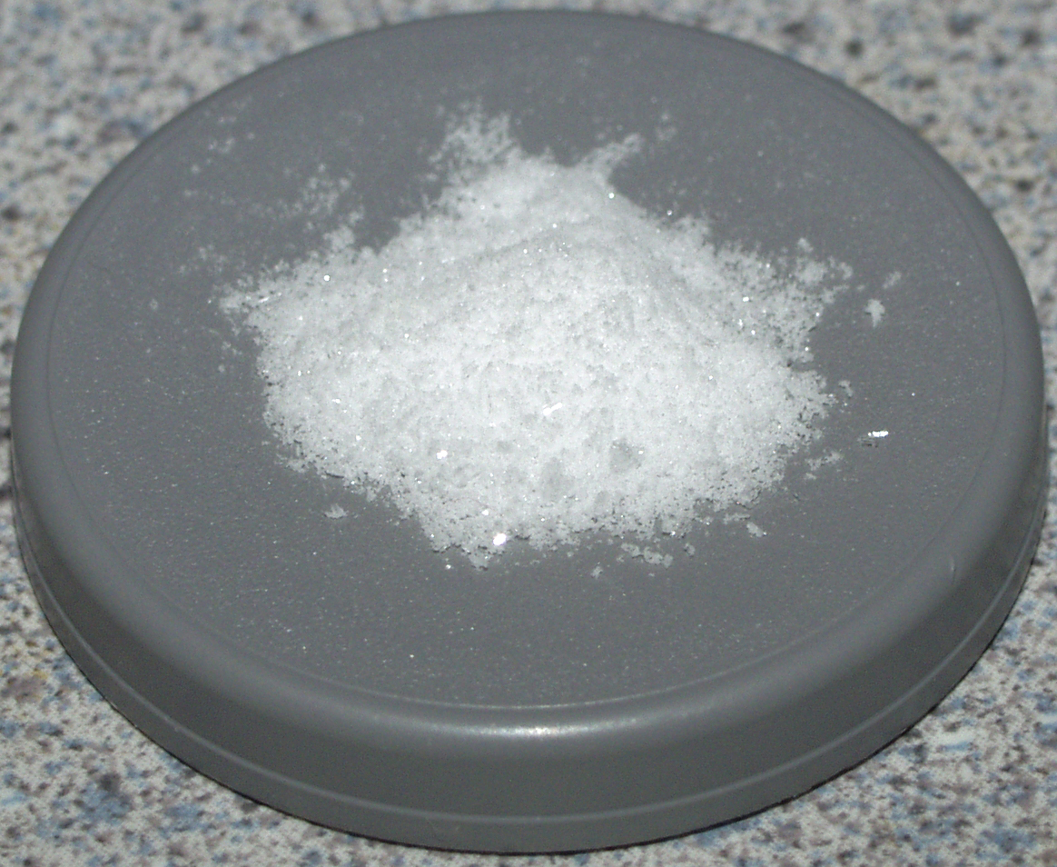 Photograph of acetone peroxide crystals.